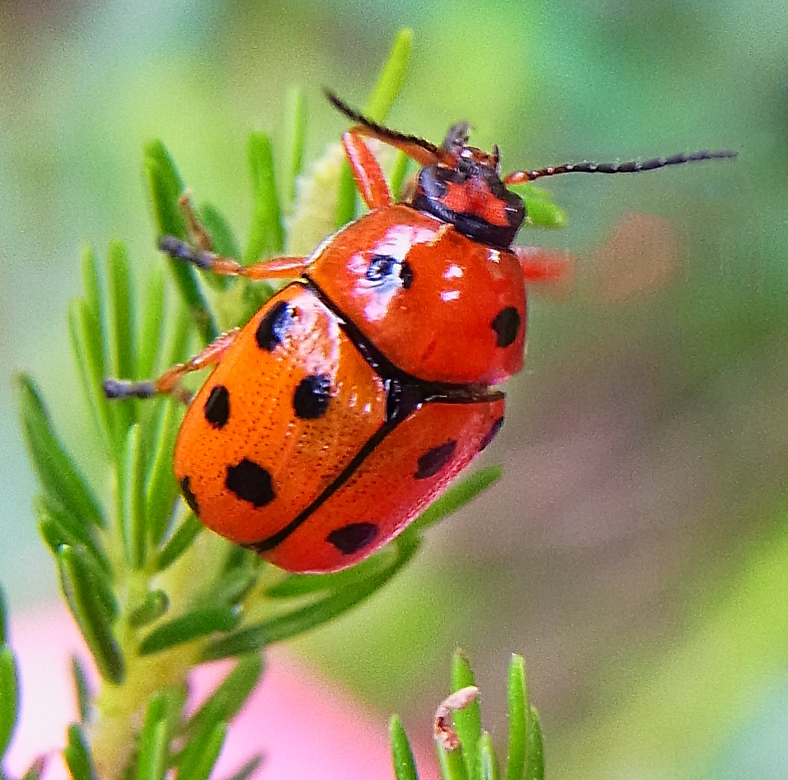 Cryptocephalus cynarae from northern Spain, Sena de Luna, León about 50 km south of Oviedo, at 1100 m at 2013-07-19